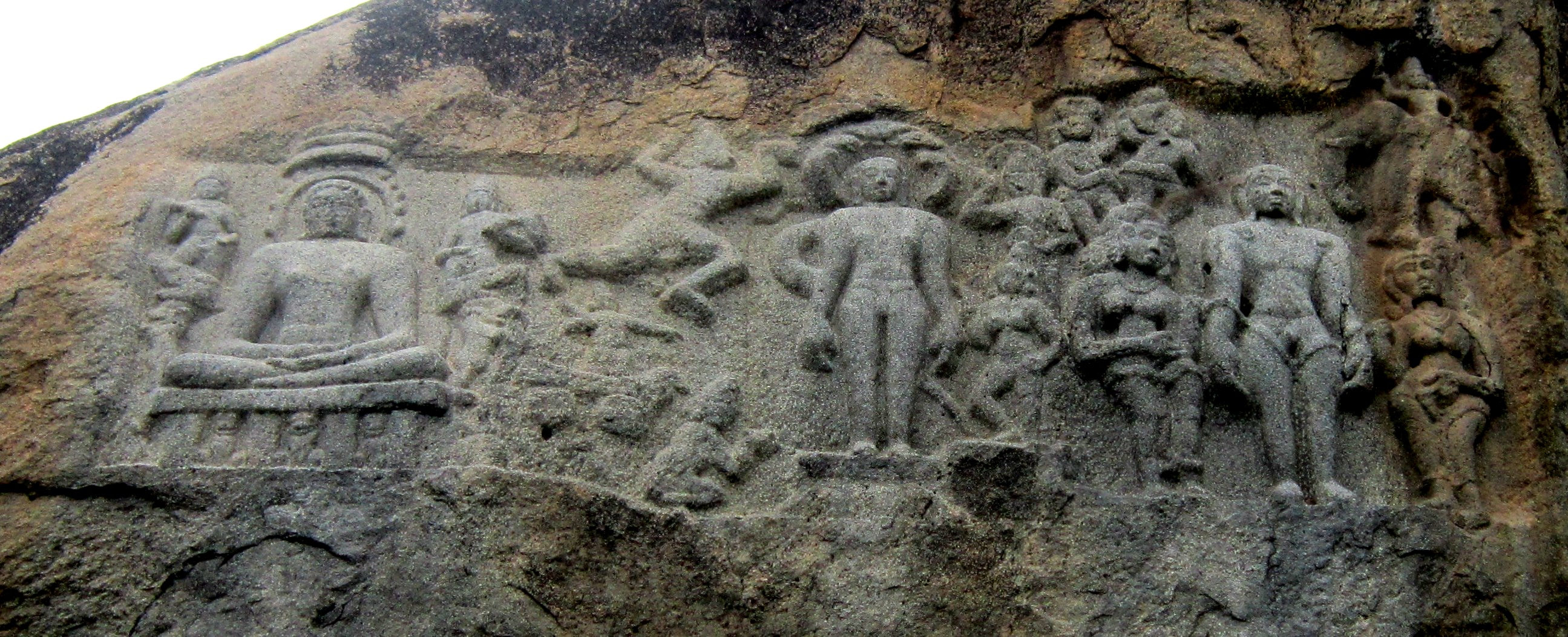 jain picture